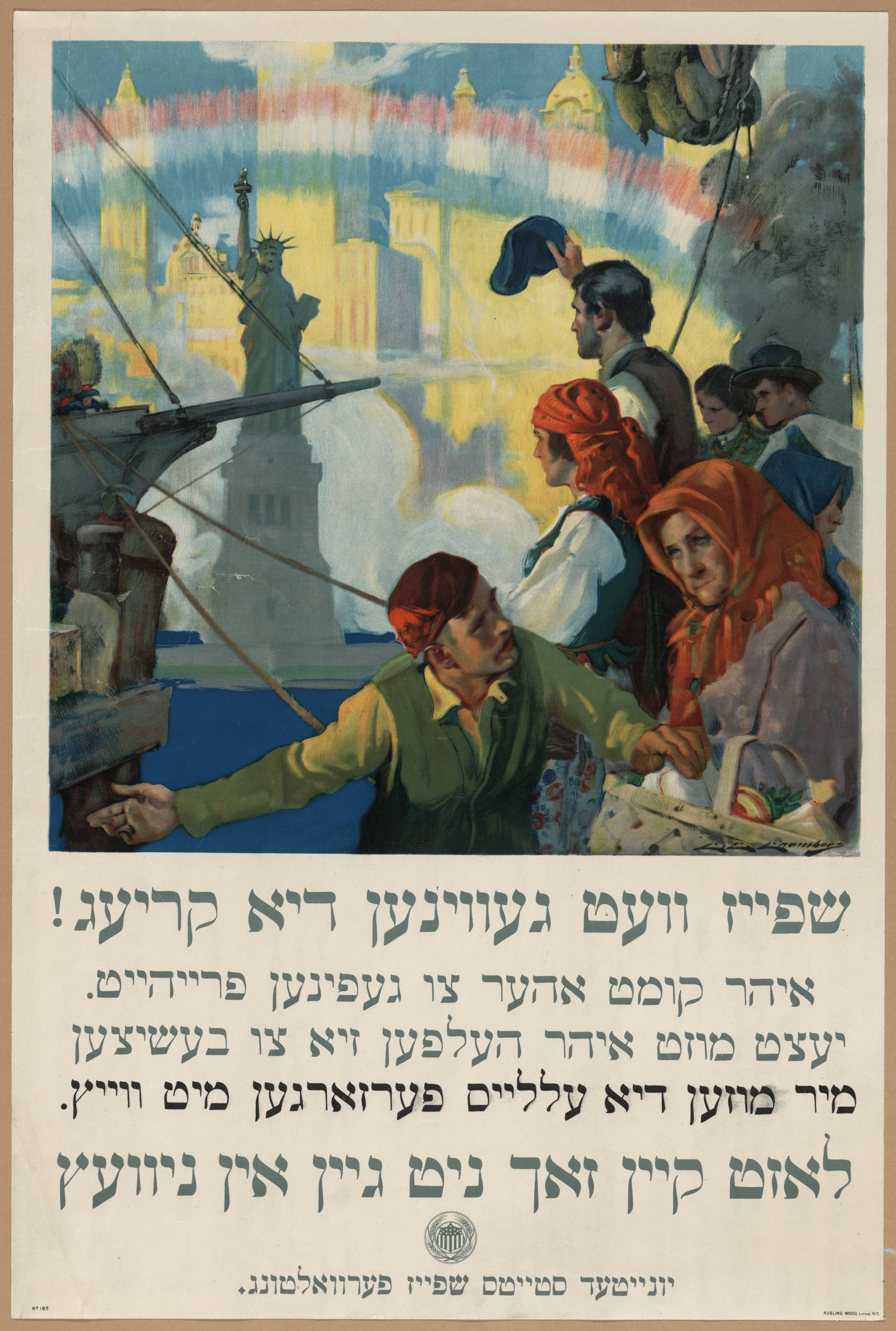 World War I era poster in Yiddish to encourage food conservation. Caption (translated) "Food will win the war - You came here seeking freedom, now you must help to preserve it - Wheat is needed for the allies - waste nothing." Color lithograph